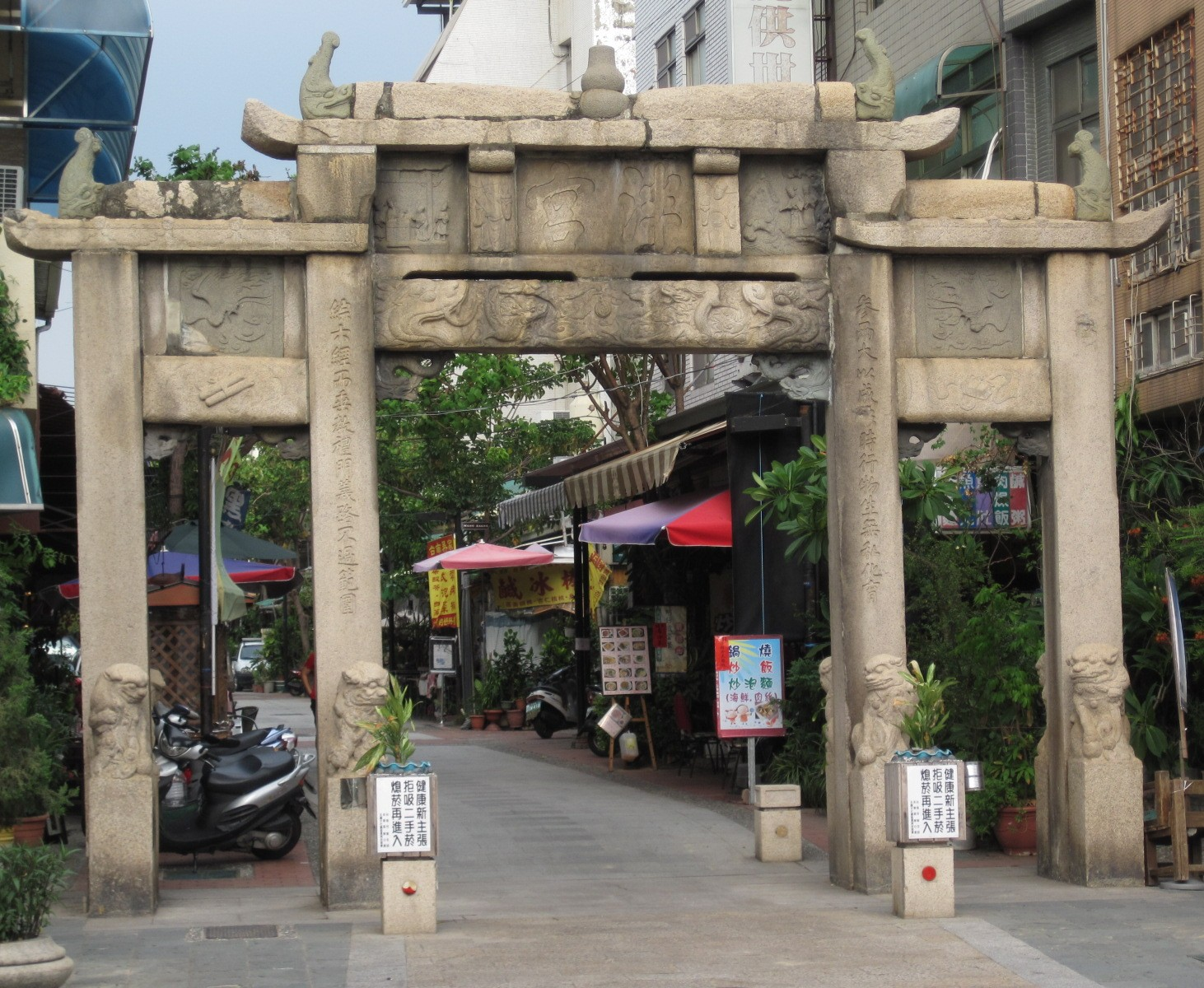 The Paifang across from Tainan Confucian Temple.